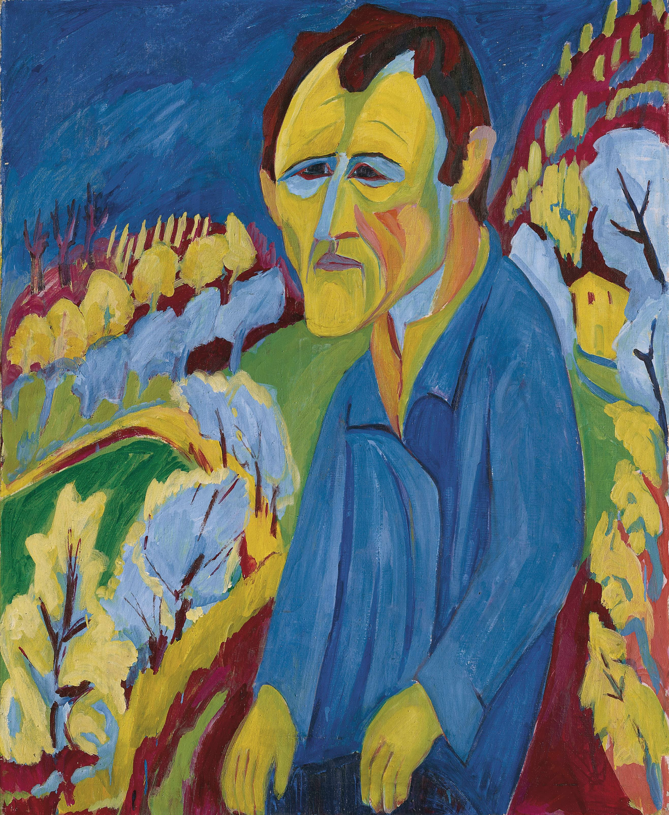 Hermann Scherer (1893-1927) - Self portrait in landscape oil on canvas 109 x 89 cm 1924-1926